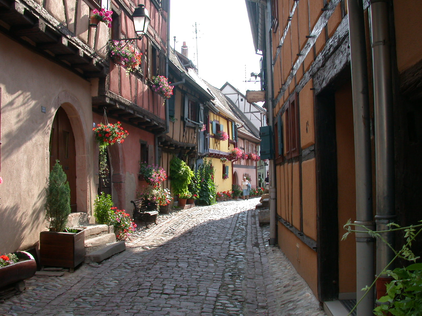 Typical street in Eguisheim, Alsace Credits : Photo taken by User:Mschlindwein, June 26, 2004